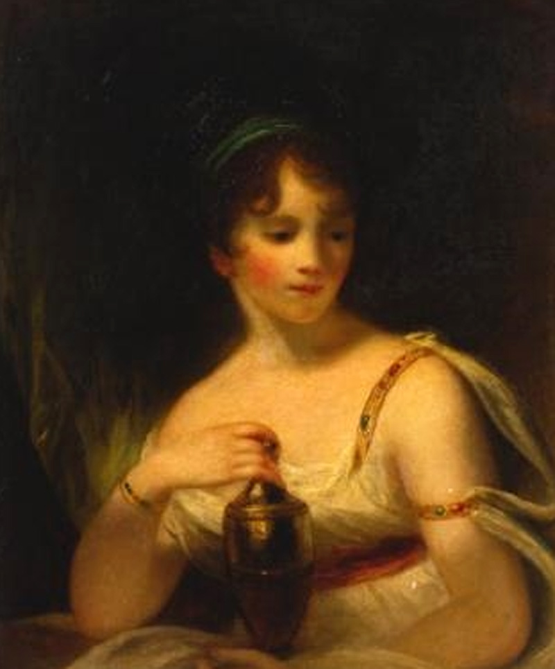 Charlotte Earle Norton (nee Beechey) circa 1820